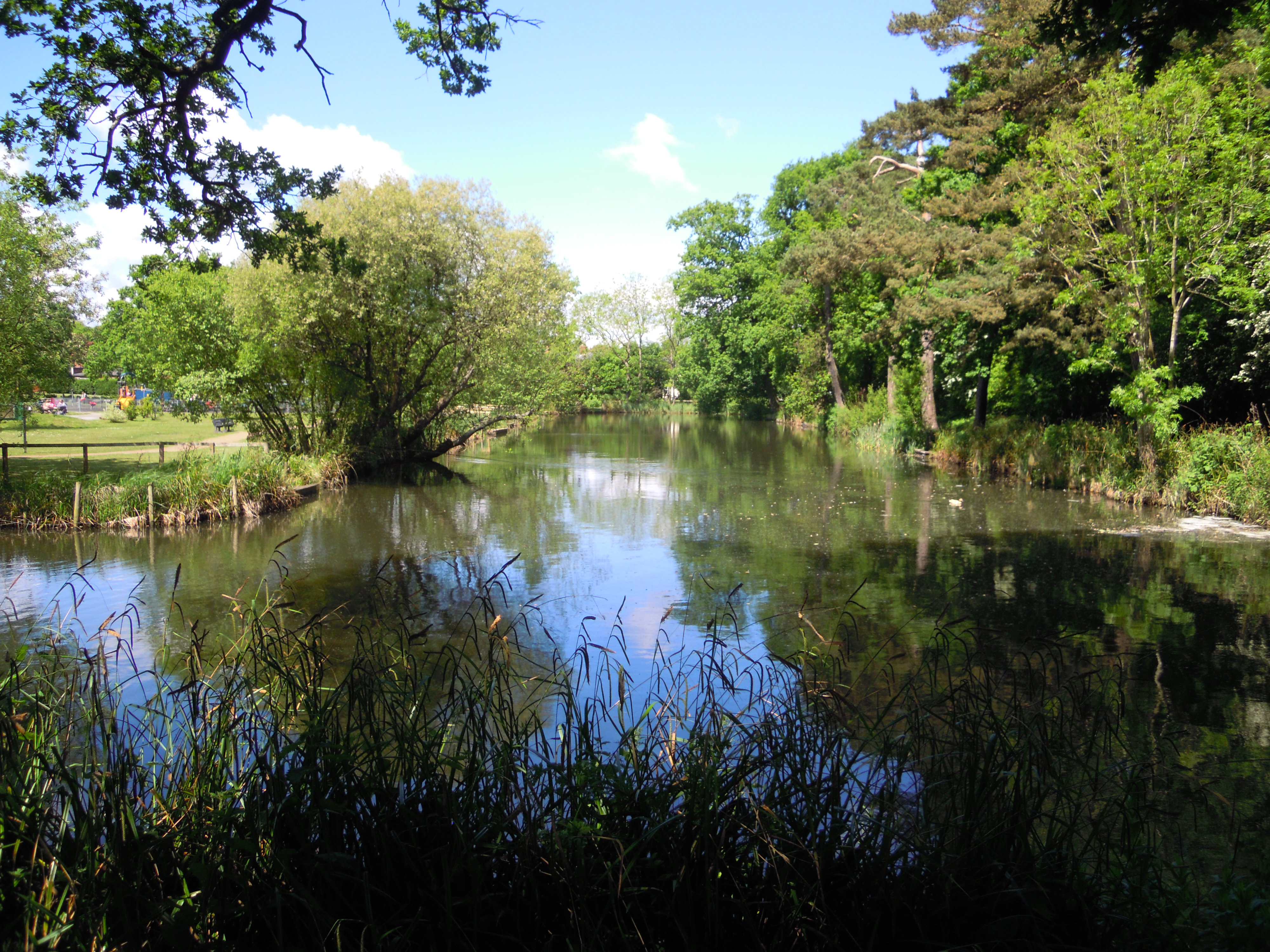 The lake at Aldershot Park in Aldershot in Hampshire